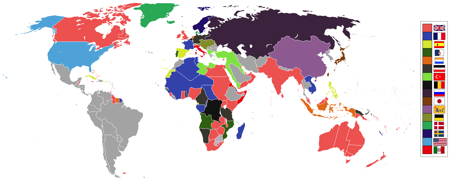 Maps of world history BC 2000 · 1000 · 500 · 400 · 323 · 300 · 200 · 100 · 50 AD 1 · 50 · 100 · 200 · 250 · 300 · 400 · 500 · 700 · 750 · 820 · 900 · 1556 · 1700 · 1815 · 1859 Maps of colonization history 1492 · 1550 · 1600 · 1660 · 1754 · 1800 · 1812 · 1822 · 1885 · 1898 · 1914 · 1920 · 1936 · 1938 · 1945 · 1959 · 1974 · 1975 · 2007 Animated Map Maps of Cold War 1959 · 1980 · see also: Eastern Hemisphere only maps template (1300BC-1500AD) (this template: · view · discuss )